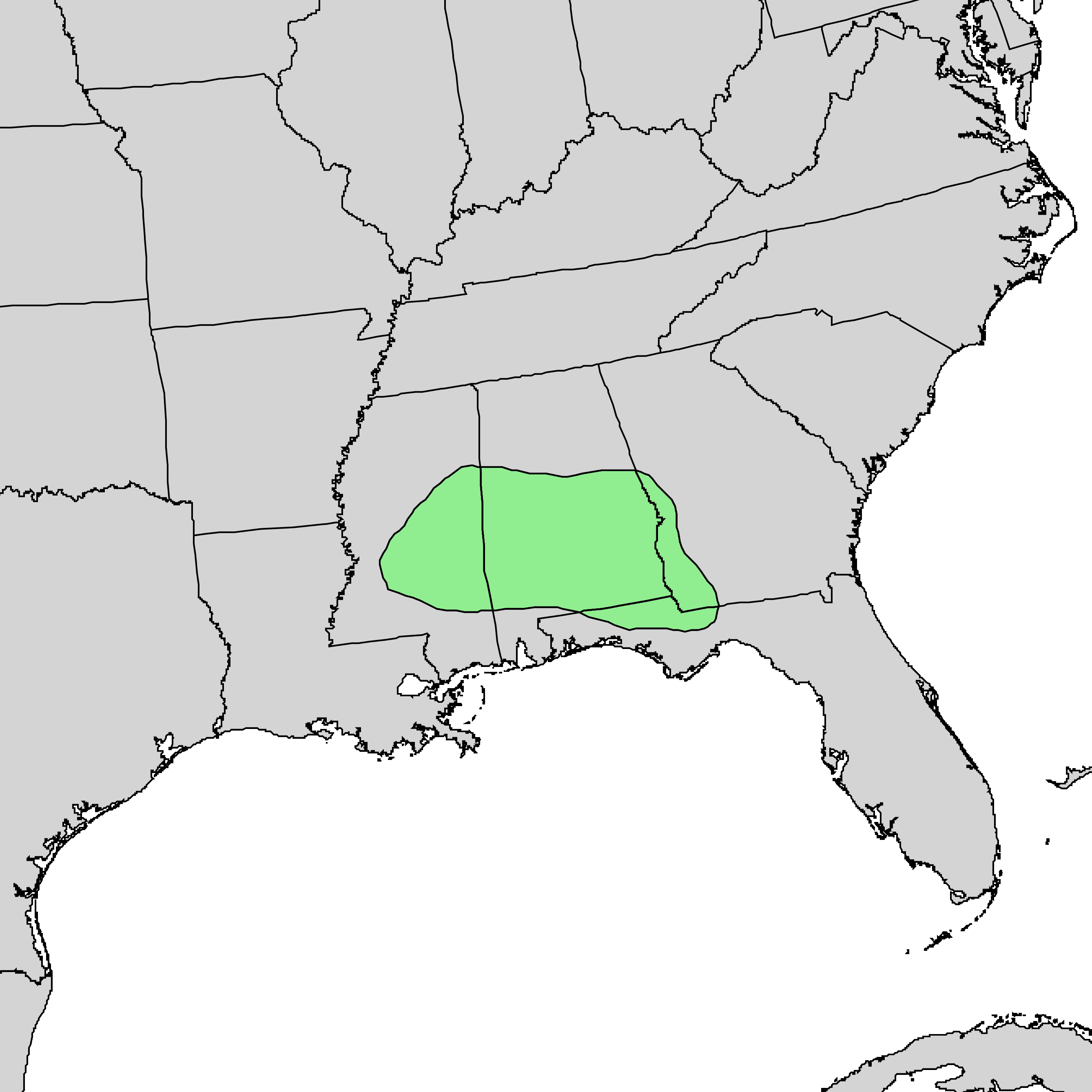 Natural distribution map for Catalpa bignonioides